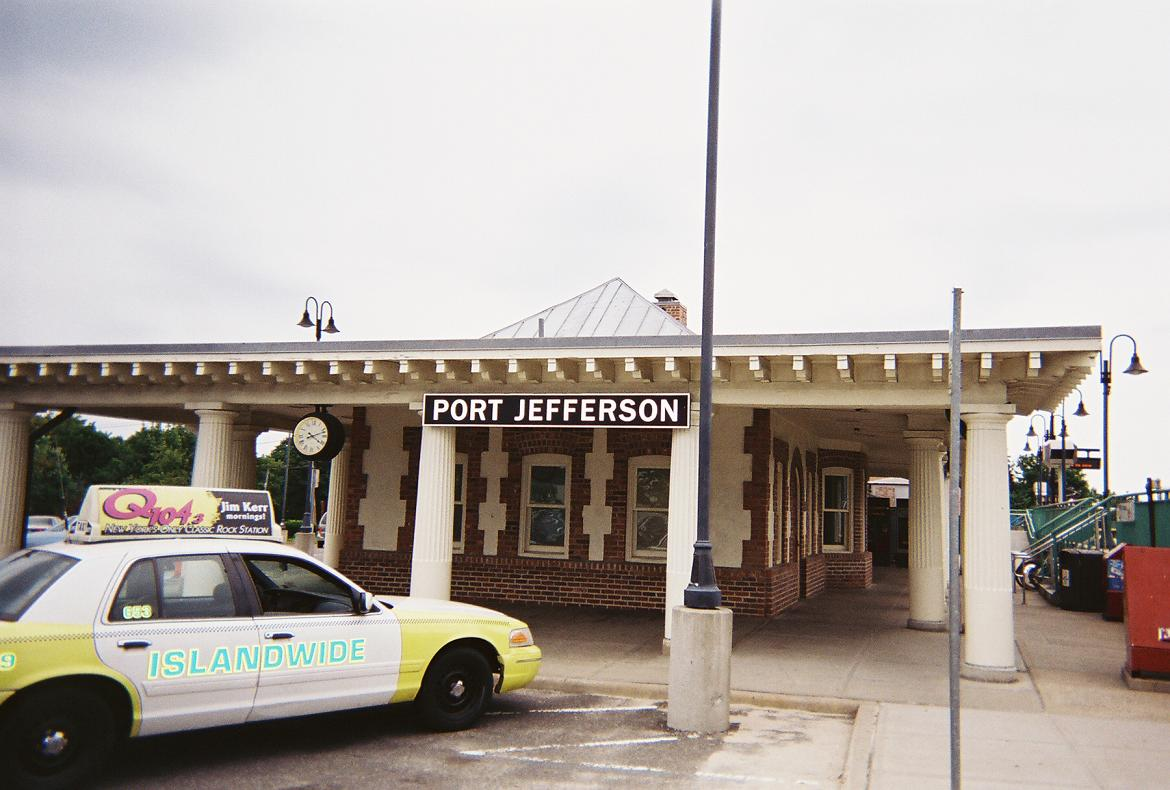 Sixth Photo of Port Jefferson(NY) Station after the 2001 restoration project, taken by me on July 4, 2007.